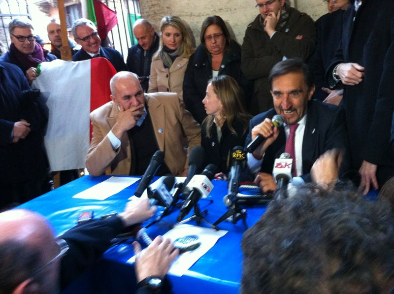 Nascita Fratelli d'Italia 2